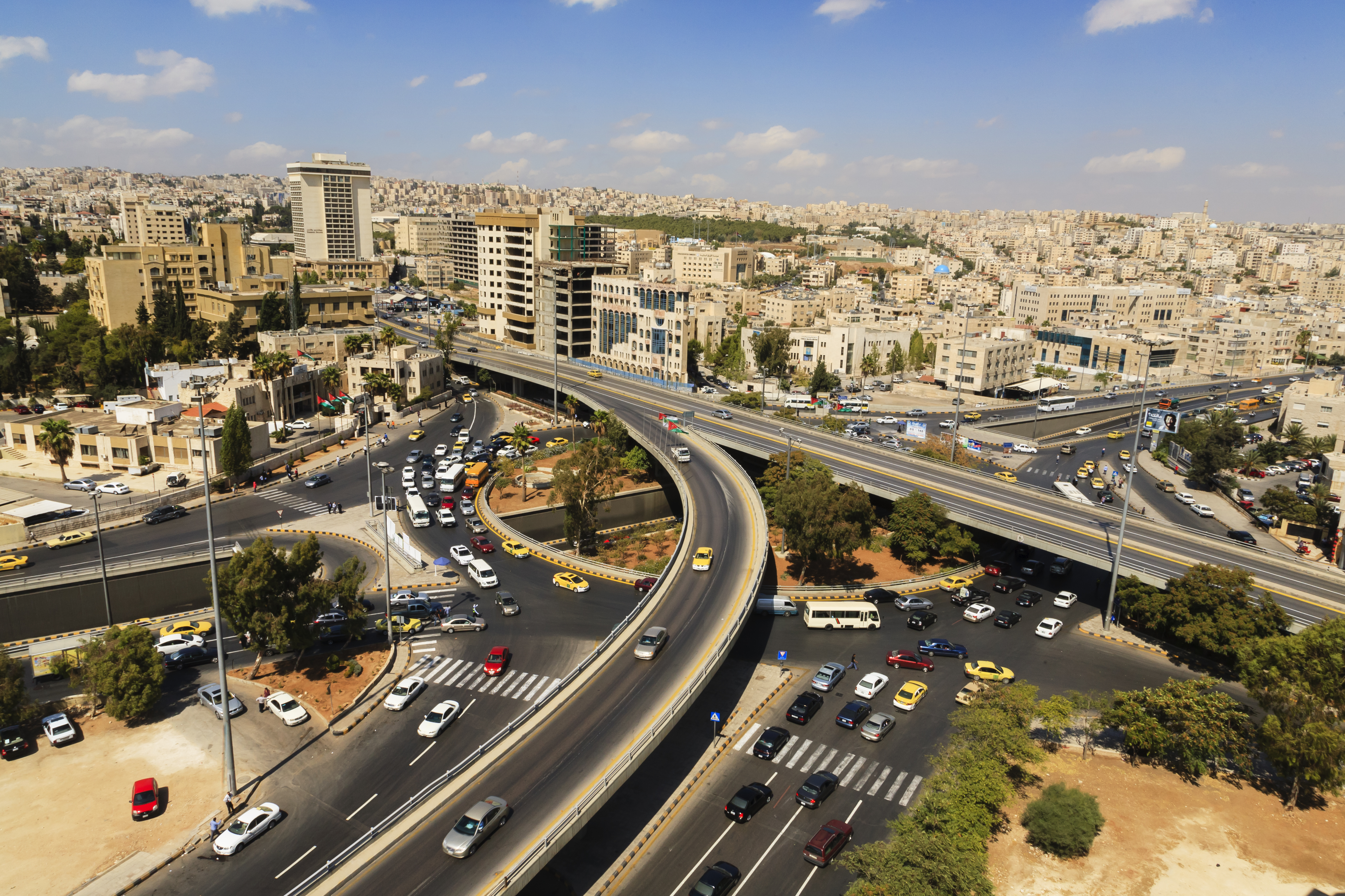 Jamal Abdul Nasser Circle, Amman, Jordan